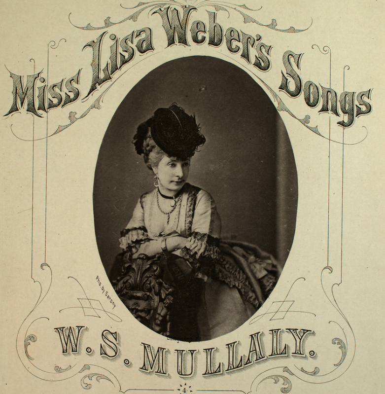 Photograph of British actress and singer Lisa Weber, on front of sheet music published in 1873.